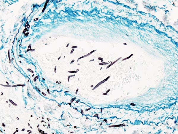 Histopathologic image representing angioinvasive aspergillosis in an immunocompromised host. Autopsy material. Grocott's methenamine silver with Victoria blue elastica stain.